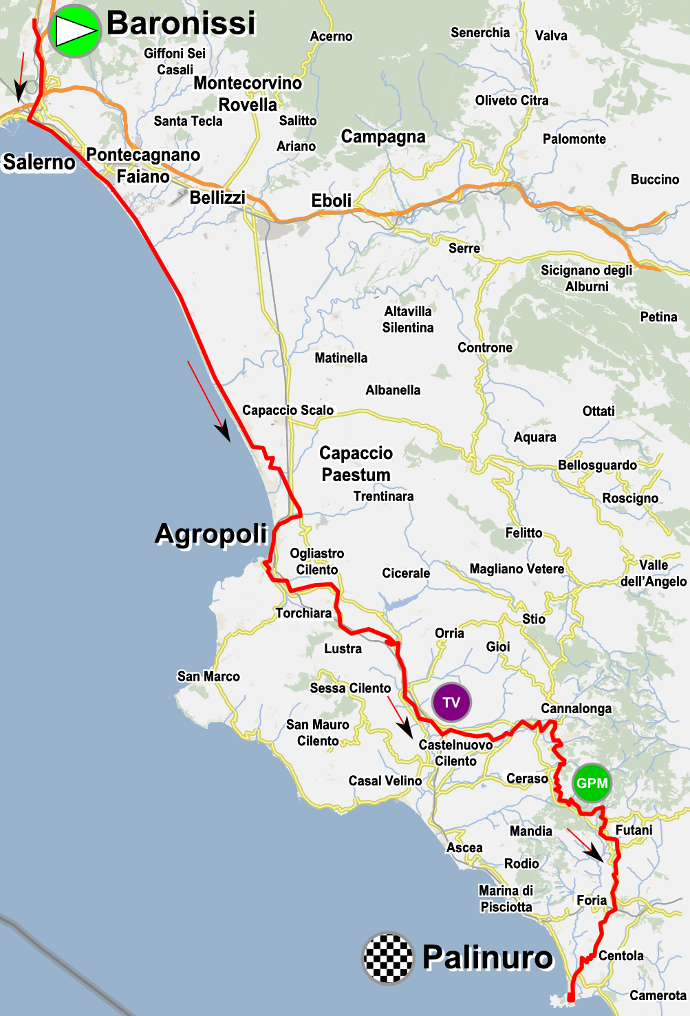 Map of stage 8 of Giro donne 2017.